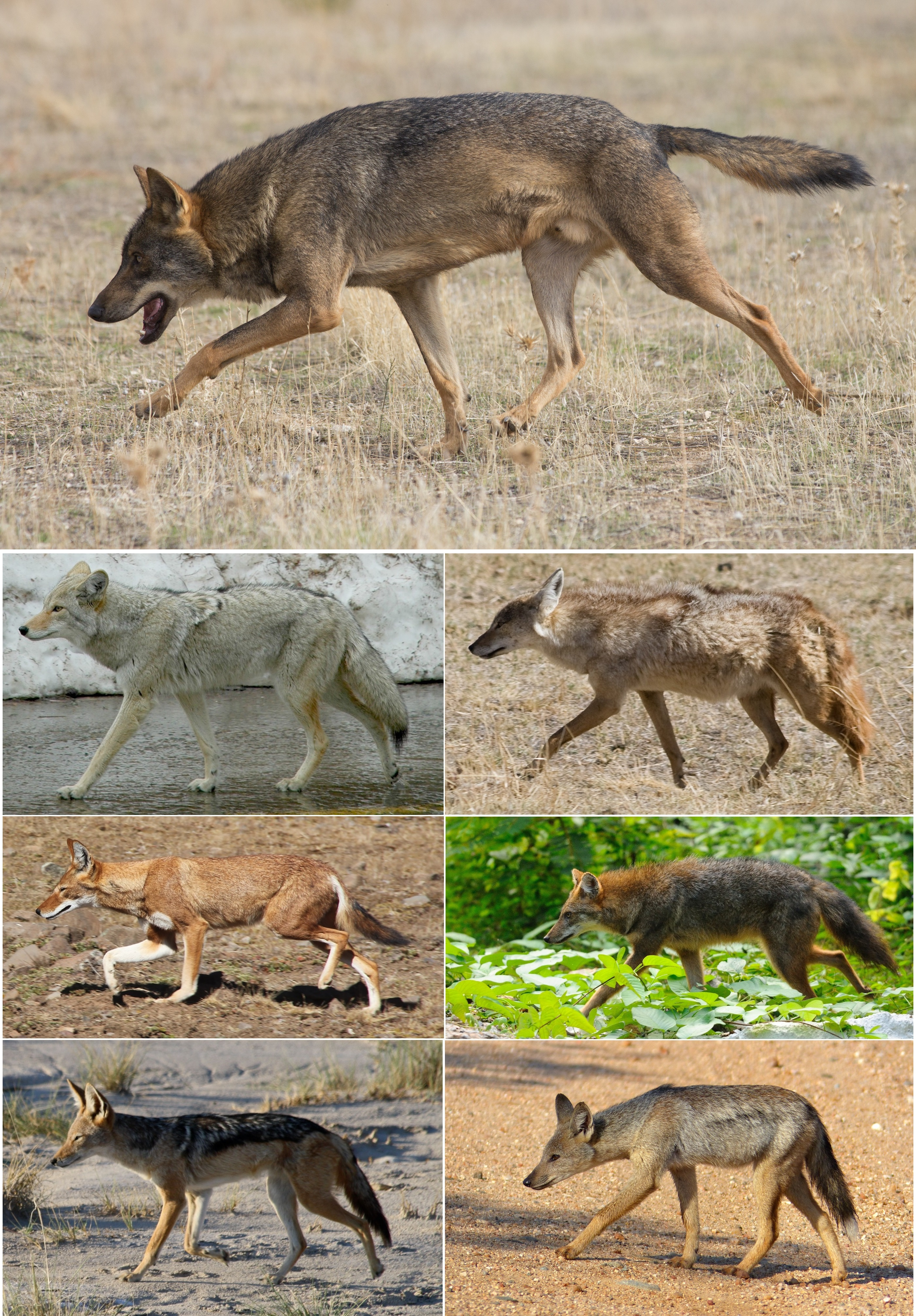 Canis species: Top - C. lupus - Top middle - C. latrans, C. anthus - Bottom middle - C. simensis, C. aureus, Bottom - C. mesomelas, C. adustus